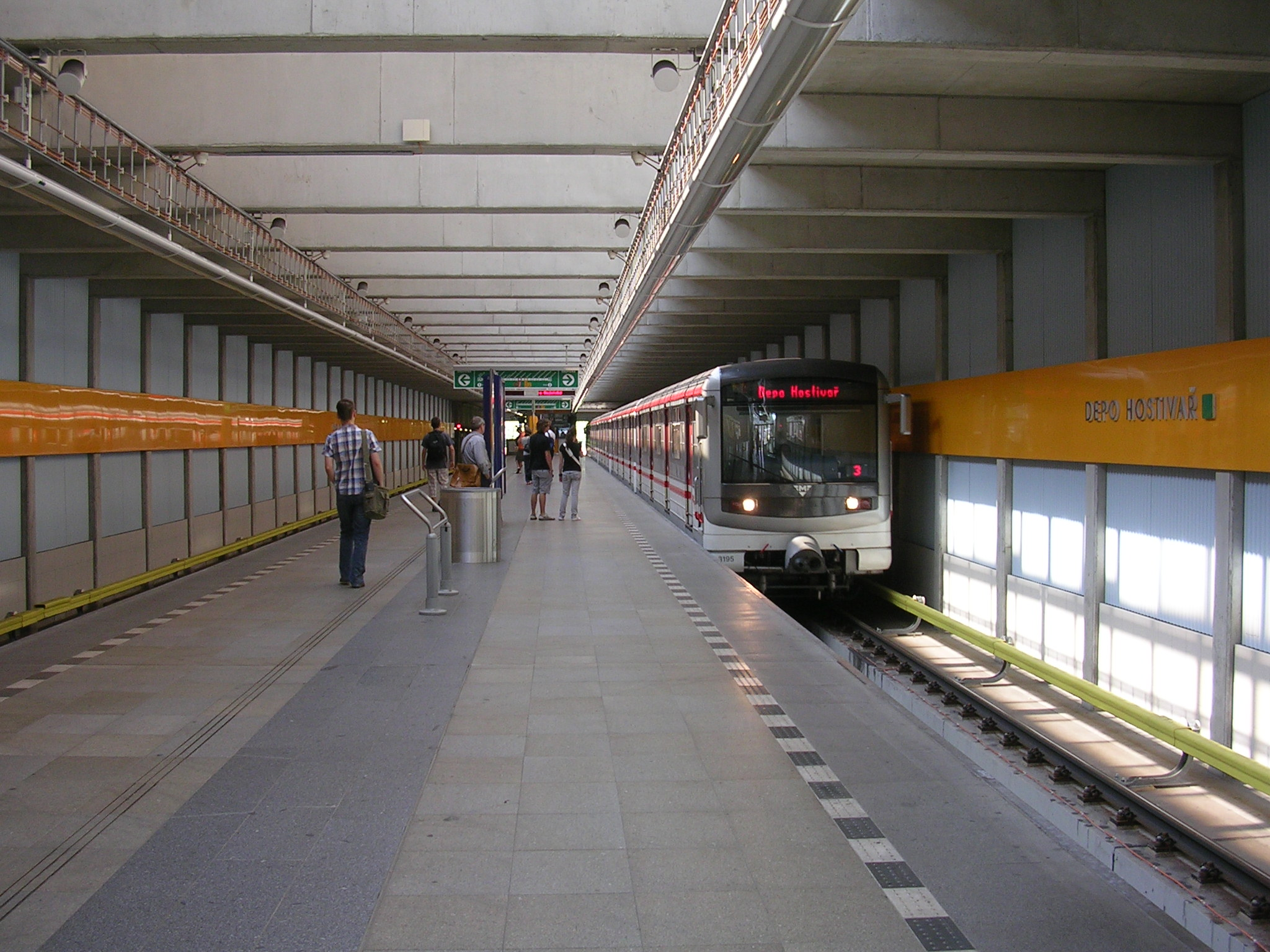 Strašnice, Prague, the Czech Republic. Depo Hostivař metro station. - Google Maps - Google Earth